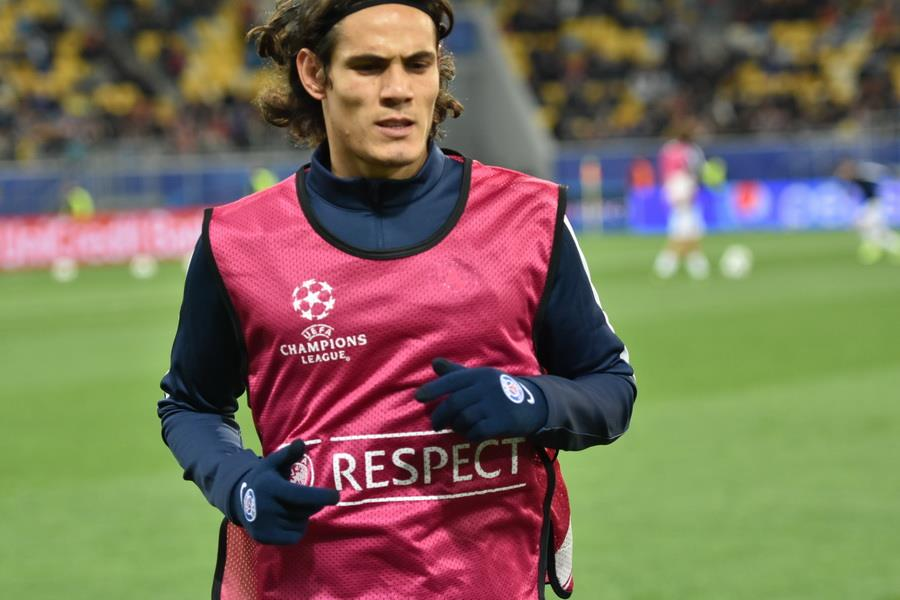 Edinson Cavani